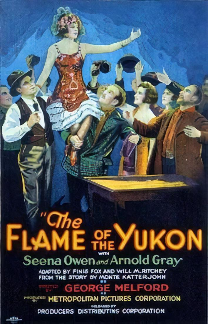 Poster for the 1926 film Flame of the Yukon A renewal search was done in both film and artwork for the years 1953 and 1954. There were no listings for the film title or any listings in artwork for Producers Releasing Corporation. There no evidence of continuing copyright for the film or items related to it.